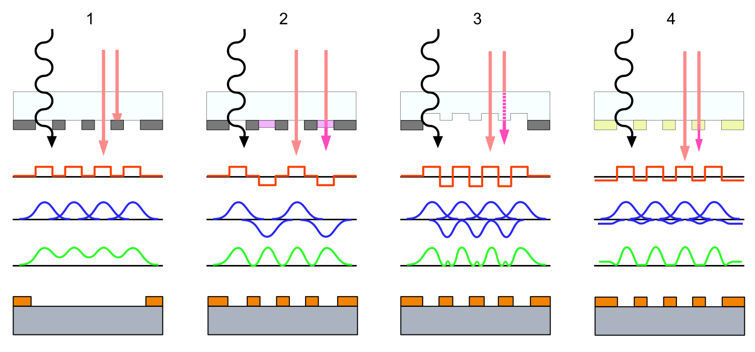 Phase Shift Mask (4 types) Non-text 1.Binary mask 2.Phase Shift mask 3.Etched Quartz mask(Levenson mask) 4.Half-tone mask (Top) Mask, (Red) Light Energy/Phase on Mask, (Blue) Light Energy/Phase on Wafer, (Green) Light Power on Wafer, (Bottom) Resist on Silicon Wafer